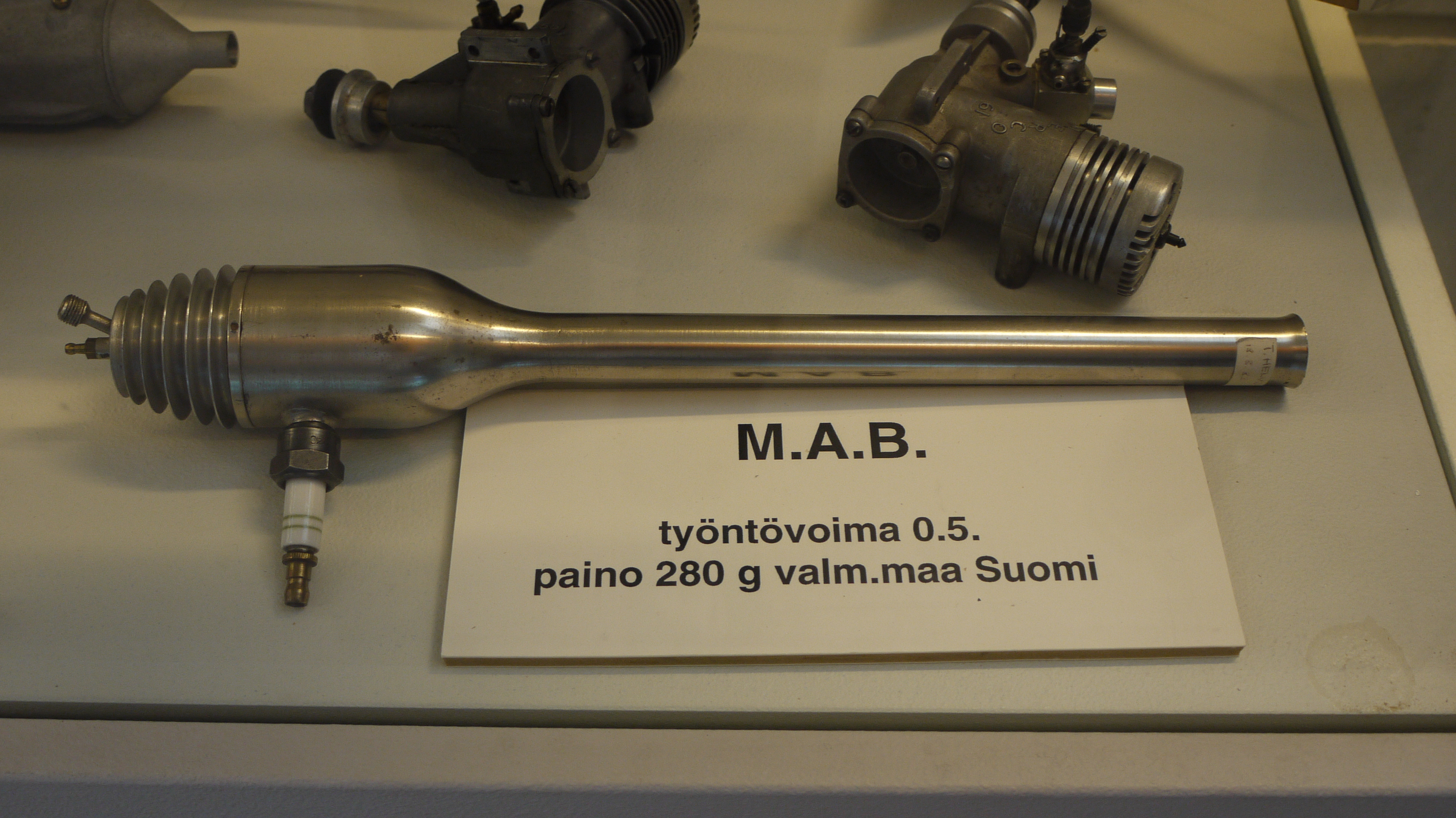 Small Pulsejet engine in Finnish Aviation Museum.